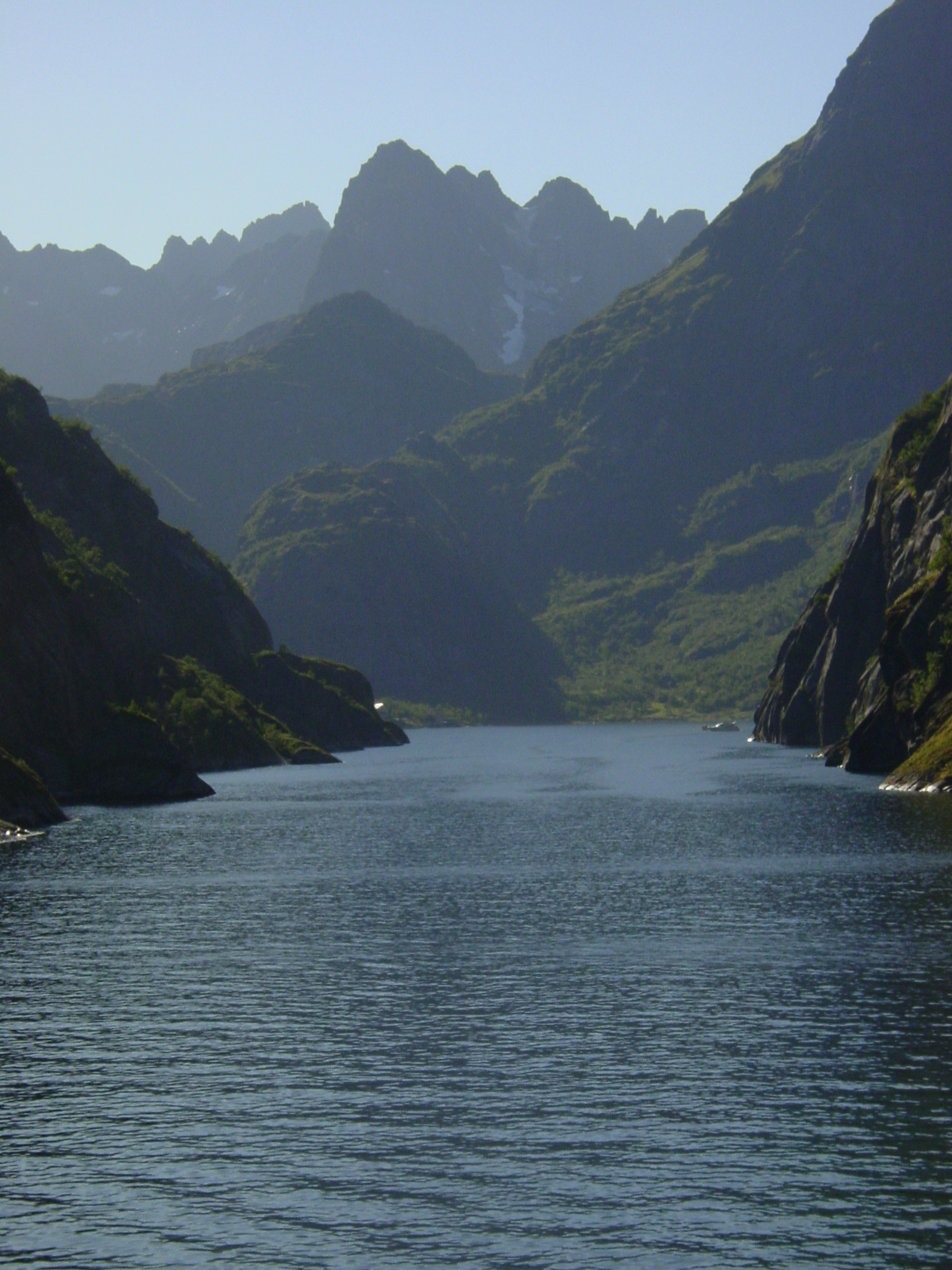 Trollfjorden in Norway, seen from the east. Original description at Flickr was "Its amazing that a cruise ship can fit in there"